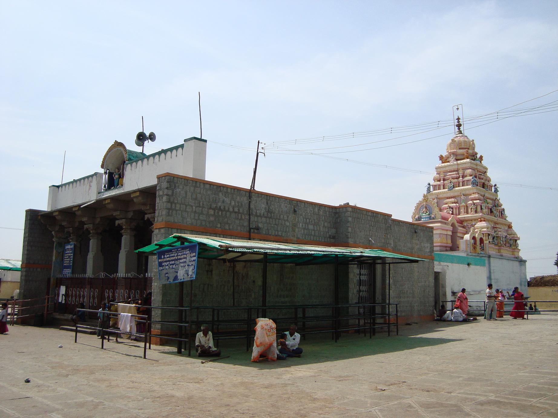 Mylara Lingeshwara Temple at Mylara, Bellary District, North Karnataka, India Source and Author : Manjunath Doddamani, Gajendragad / Hubli, Karnataka(India)